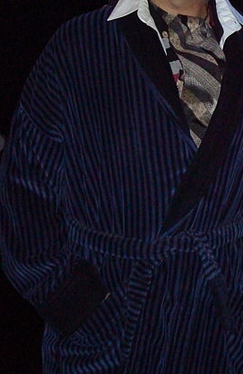 Image cropped to just show the smoking jacket.